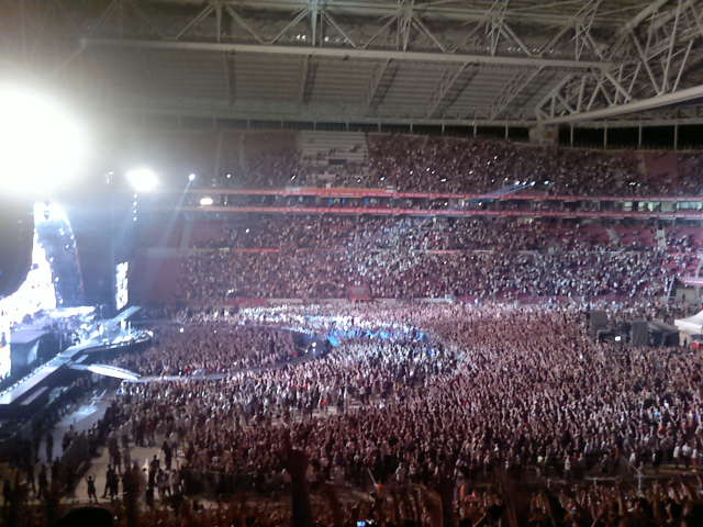 Turk Telekom Arena Bon Jovi Concert